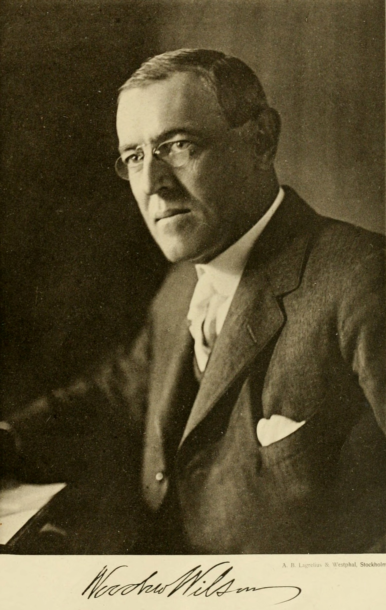 Woodrow Wilson, portrait used on the Nobelprize website.